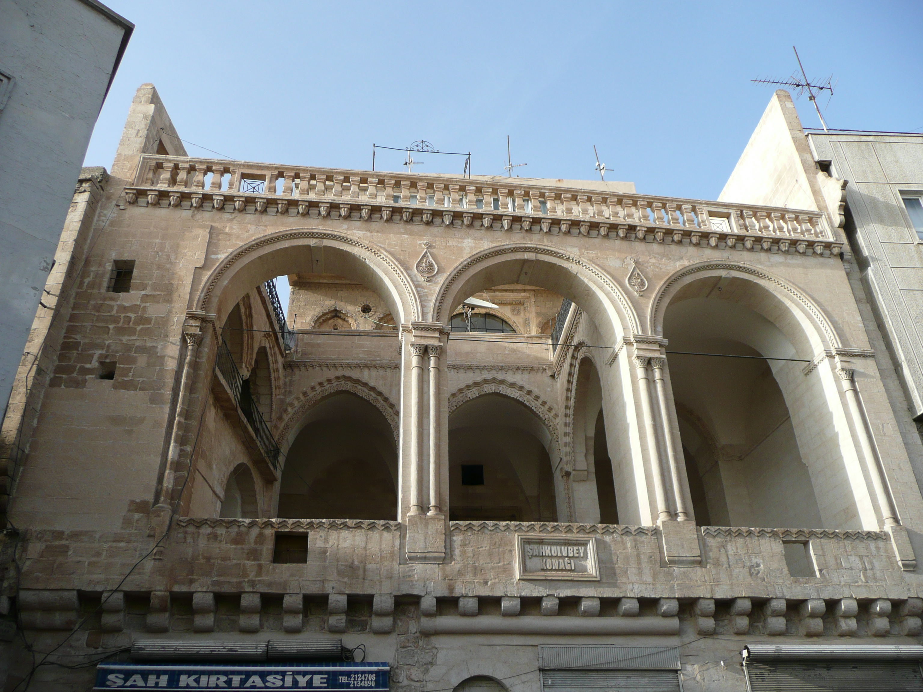 Photographs from Mardin, Turkey